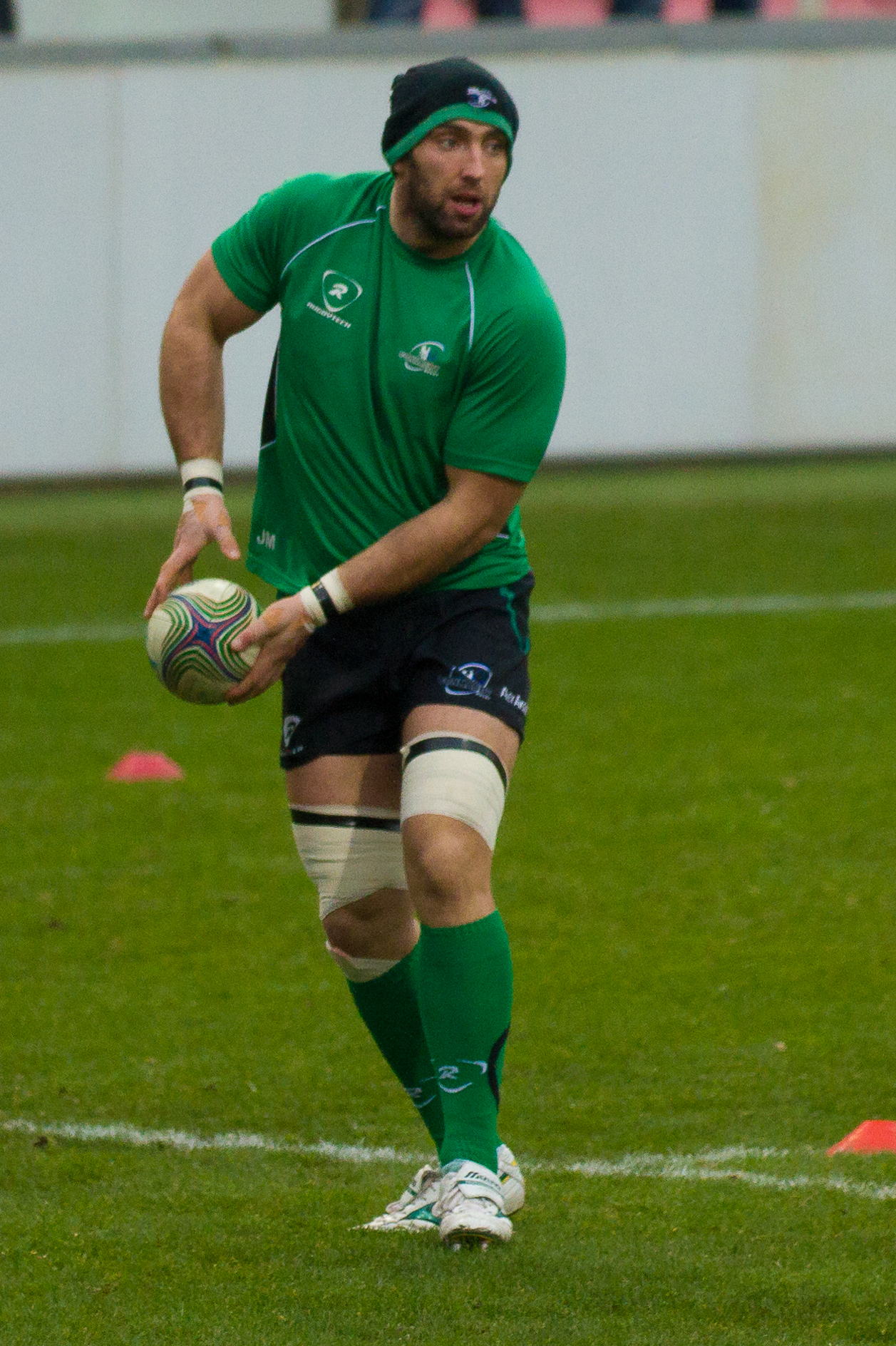 Heineken Cup 2011-2012 — 14 January 2012, Stade Ernest-Wallon. Match between: Stade toulousain — Connacht Rugby